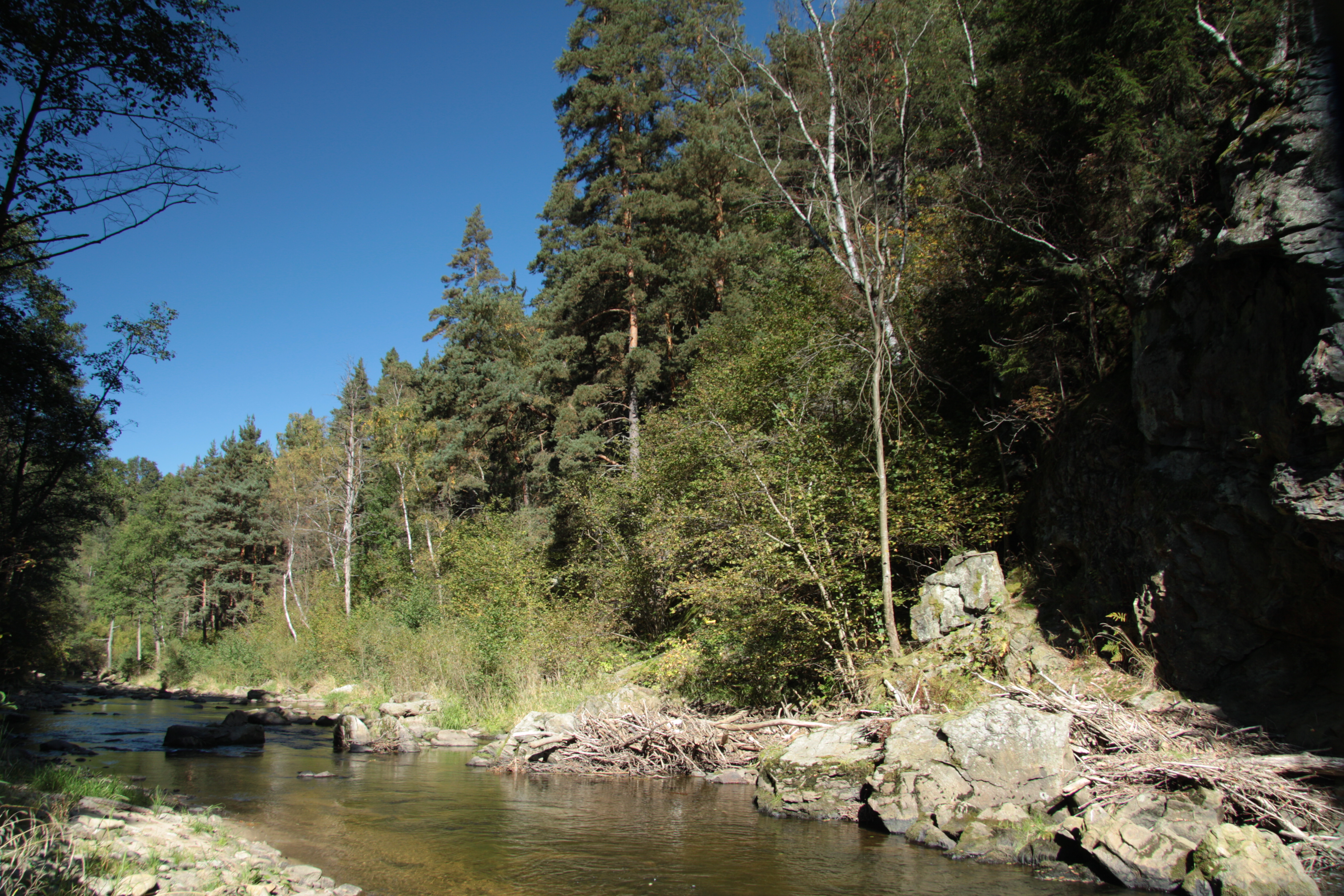 Natural monument Zábrdská skála near Zábrdí village in Prachatice District, Czech Republic Project: Chráněná území.